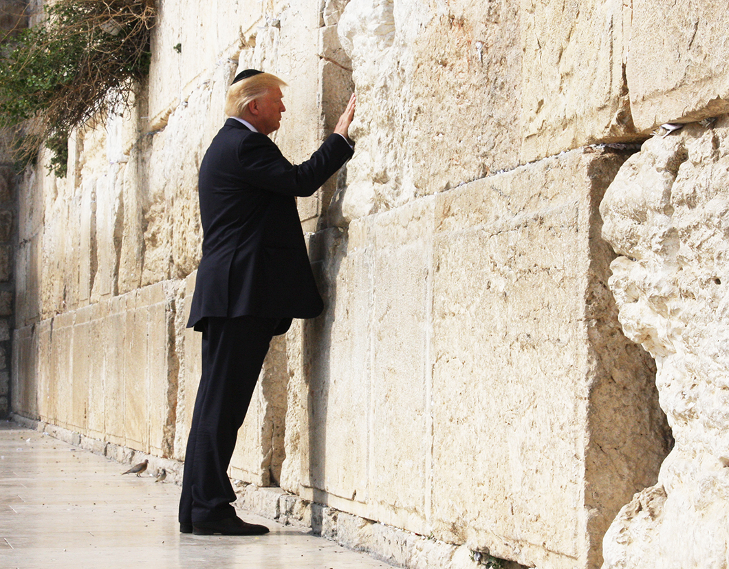 President Donald Trump places his hand on the Western Wall in Jerusalem, Monday, May 22, 2017, prior to placing a prayer in-between the stone blocks of the religious site. (Official White House Photo by Dan Hansen)